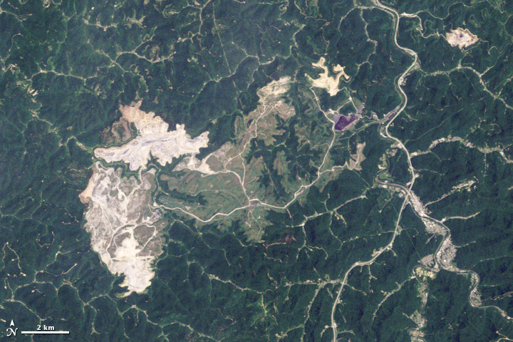 Below the densely forested slopes of southern West Virginia’s Appalachian Mountains is a layer cake of thin coal seams. To uncover this coal profitably, mining companies engineer large—sometimes very large—surface mines using strip mining methods. This image of a surface mine in Boone County, West Virginia from 2009. Based on data from NASA’s Landsat 5 satellite, this natural-color (photo-like) image document the Hobet mine in 2009. The natural landscape of the area is dark green, forested mountains, creased by streams and indented by hollows. The active mining areas appear off-white. Areas being reclaimed with vegetation appear light green. A pipeline roughly bisects the images from north to south. The town of Madison, lower right, lies along the banks of the Coal River.